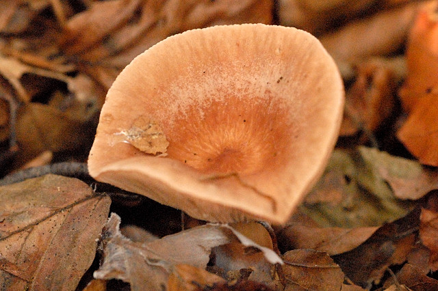 Lactarius subdulcis from Commanster, Belgium. The determination of the species shown in this picture has been verified.